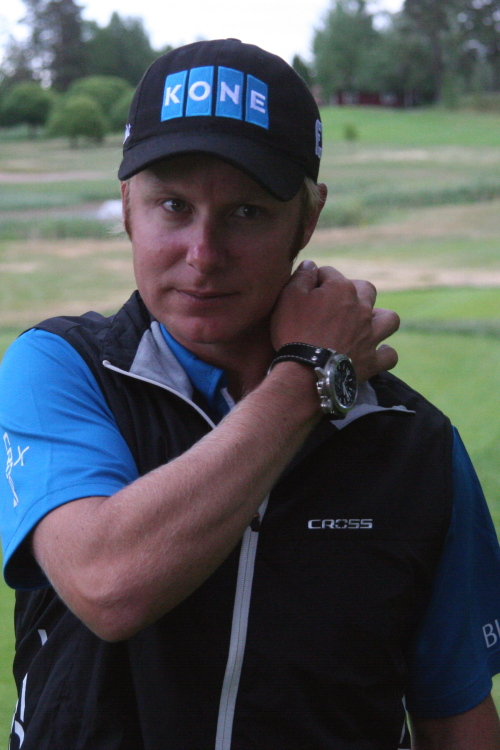 Finnish professional golfer Mikko Ilonen at SK Golf Challenge 2008 (Challenge tour) at St. Laurence Golf in Lohja, Finland. Photo by Jonny Smeds.